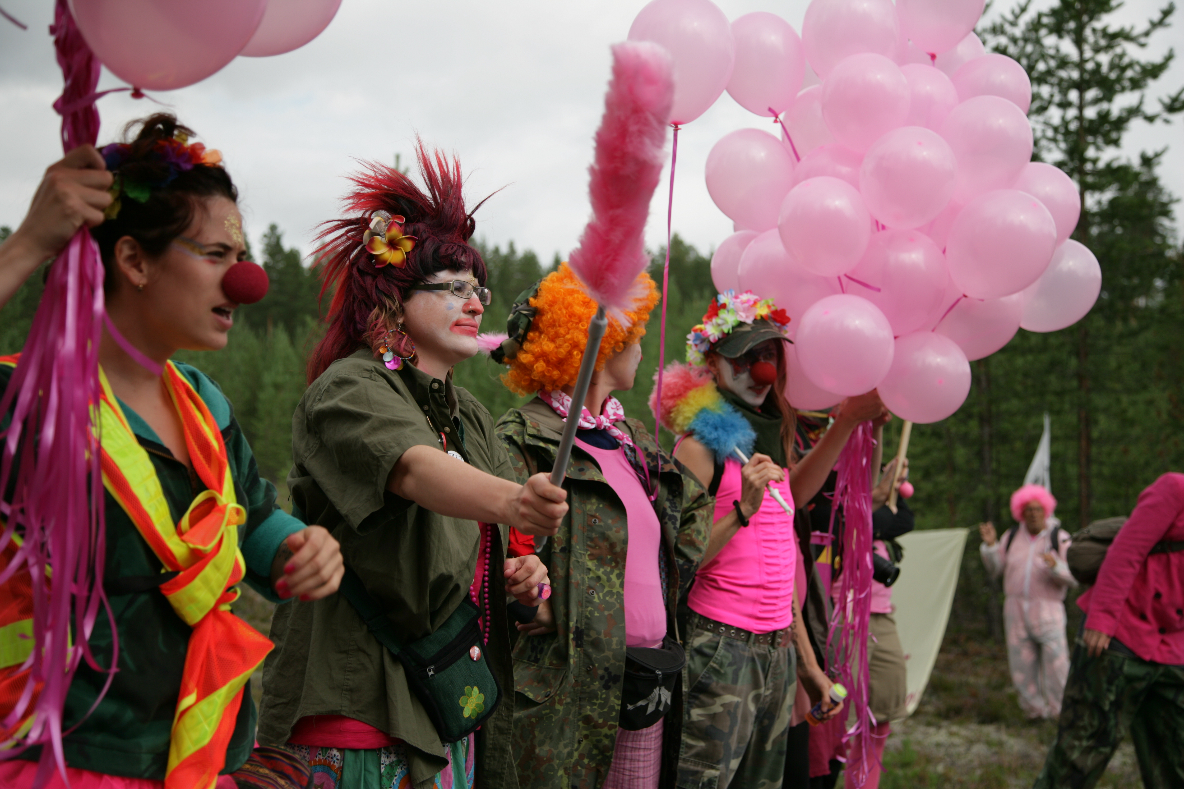 Ofog, War starts here, Clown Army